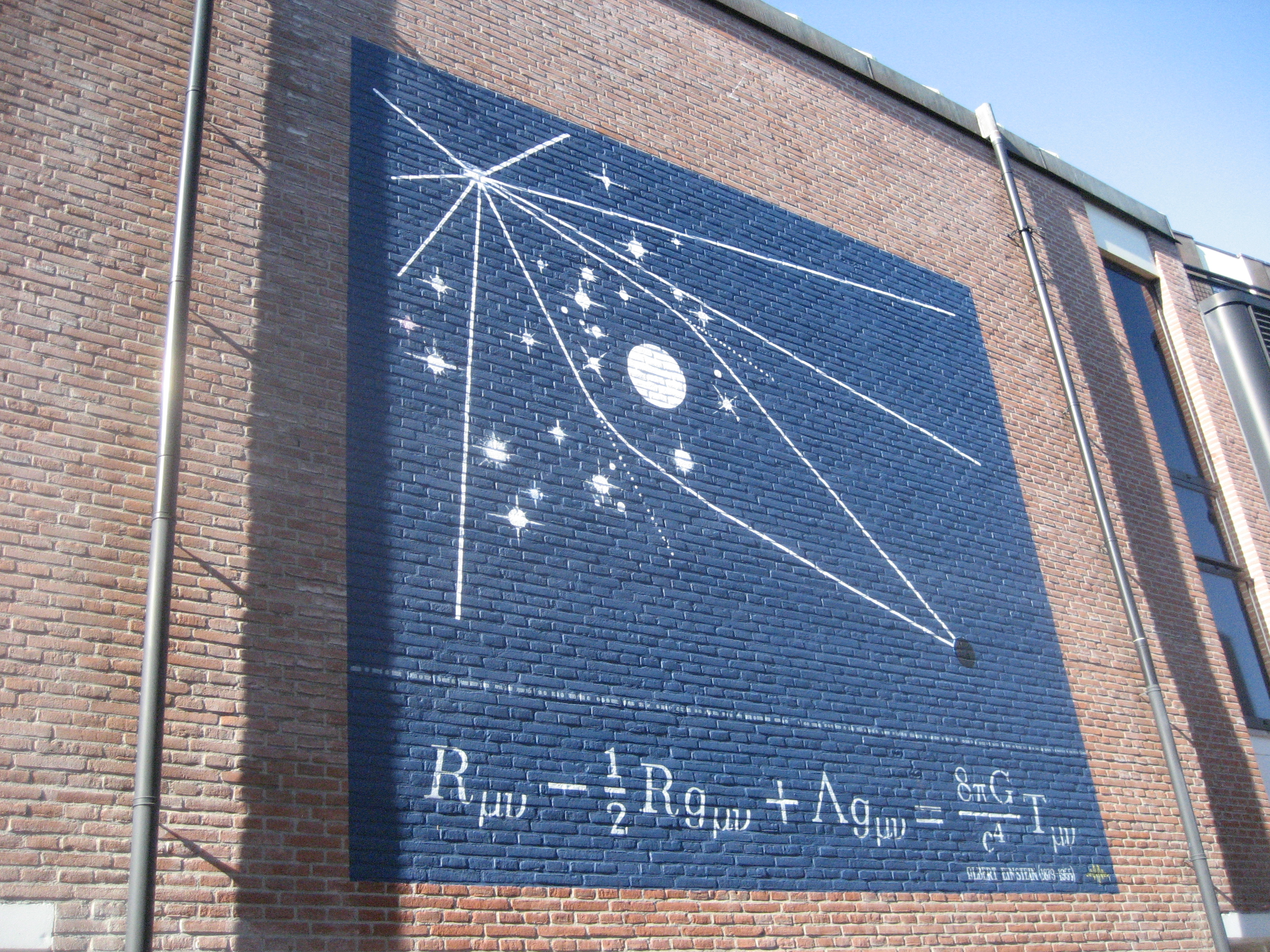 Diagram of gravitational lensing (deflection of light by an intervening mass) with formula of Einstein on a wall of Museum Boerhaave, Leiden (the Netherlands). Painted by Stichting Tegenbeeld. R μ ν − 1 2 R g μ ν + Λ g μ ν = 8 π G c 4 T μ ν {\displaystyle R_{\mu \nu }-{\textstyle 1 \over 2}R\,g_{\mu \nu }+\Lambda \ g_{\mu \nu }={\frac {8\pi G}{c^{4 }\,T_{\mu \nu . The line sketched is in fact a Morse code.